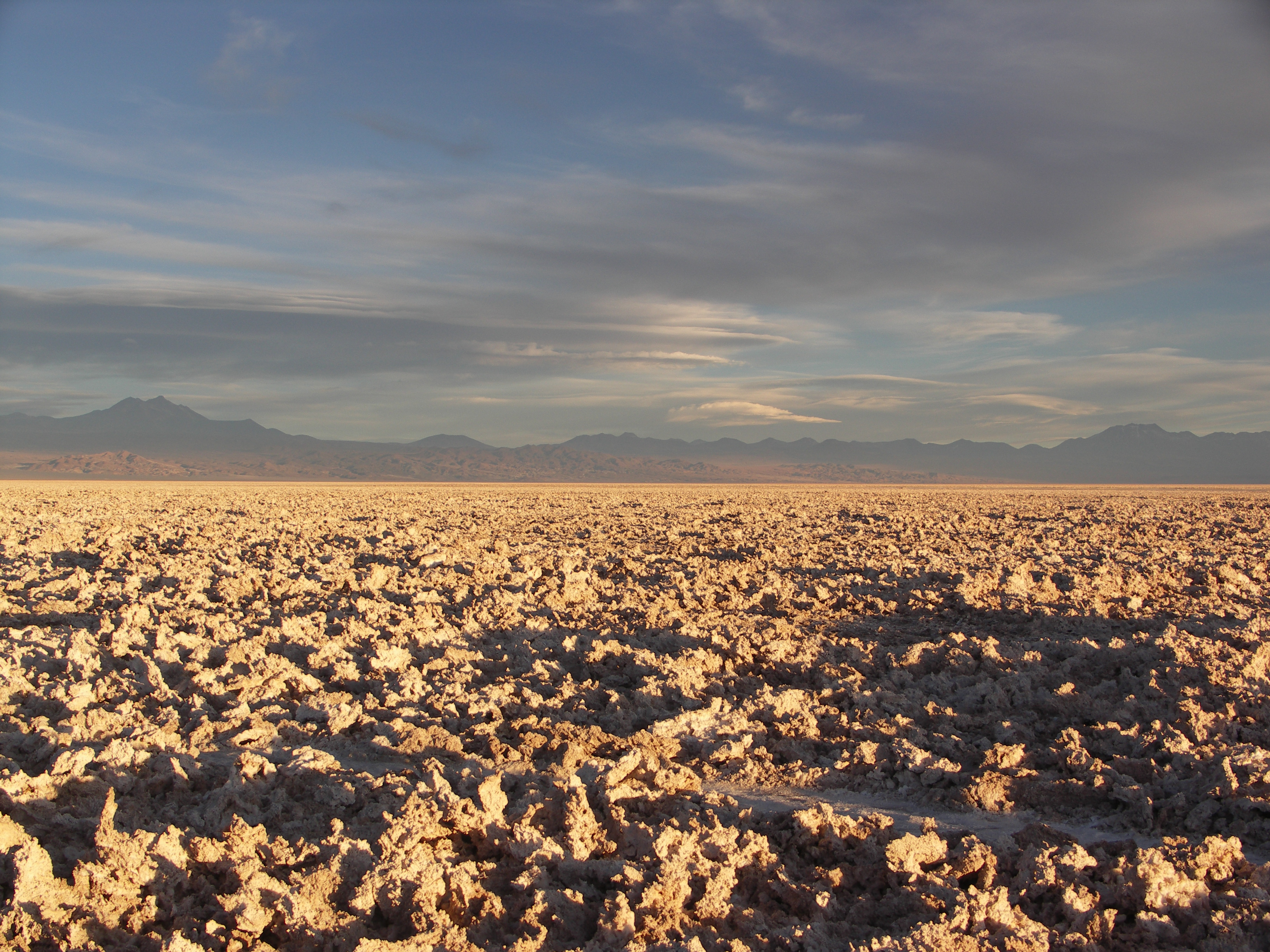 Just before sunset in the Salar de Atacama.